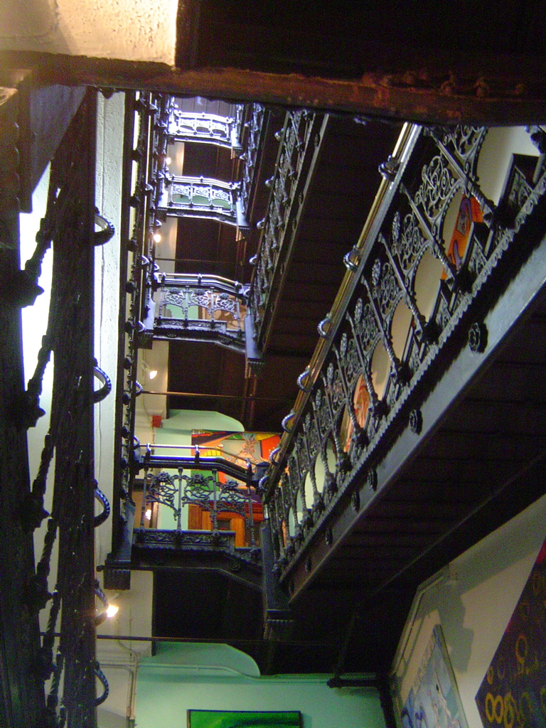 Staircase at Hotel Chelsea in New York City